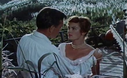 James Mason and Patricia Owens in the film Island in the Sun (1957) - trailer (cropped screenshot)